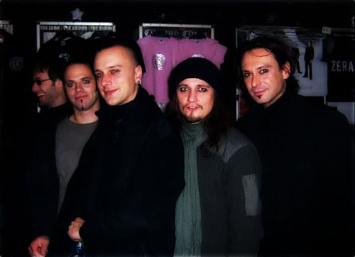 The German rock band Zeraphine, second from the right is Mika Tauriainen, vocalist of the Finnish gothic metal band Entwine.